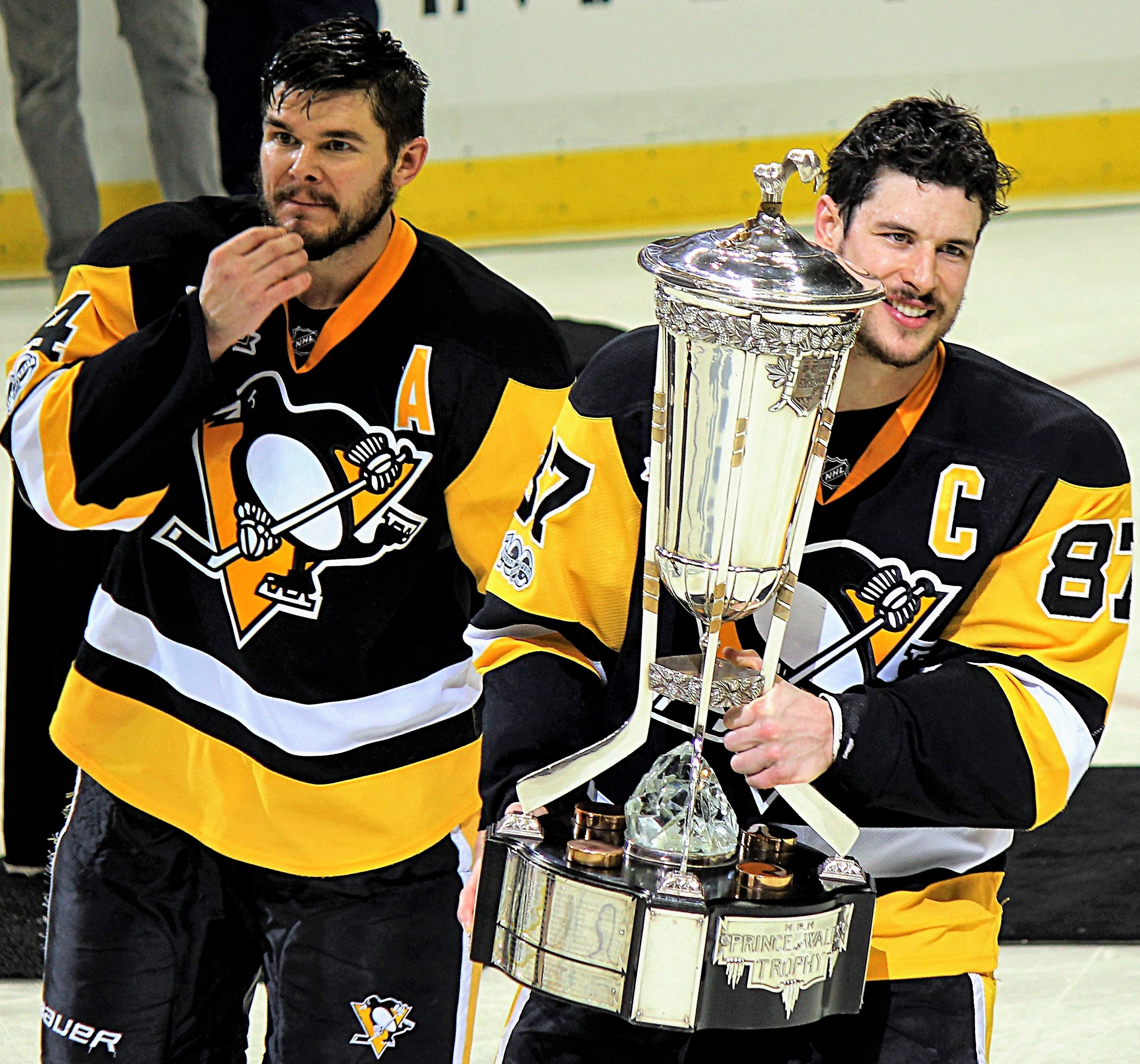 Sidney Crosby and Chris Kunitz with the Prince of Wales Trophy in 2017. Kunitz scored the series winning goal in double overtime of game 7 vs the Ottawa Senators, May 25, 2017, at Consol Energy Center in Pittsburgh, PA.